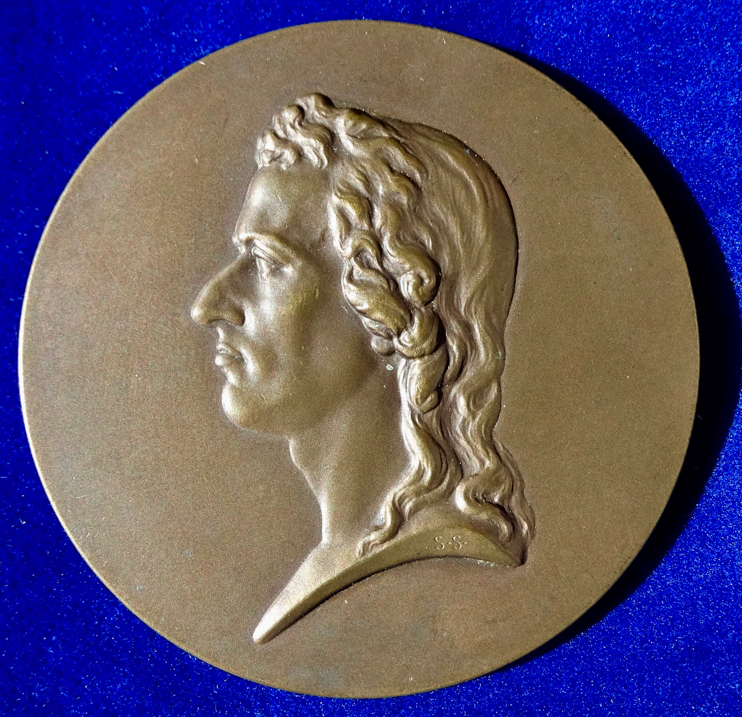 Friedrich Schiller, German Poet and Surgeon 100th Death Anniversary Medal Vienna 1905. Bronze medallion, d. = 60 mm. Head l. / L. standing muse holding a lyre, lead by a winged young male holding a torch with both hands. Curved above: "ZUR SCHILLER FEIER 1905 DIE FRAUEN WIENS". Wurzbach 8226 (25 mm); Brettauer -. Medallist: St. (Stefan) Schwartz, 1851 Neutra, Kingdom of Hungary, today Slovakia - 1924 Raabs an der Thaya, Austria Condition: EXTREMELY FINE..